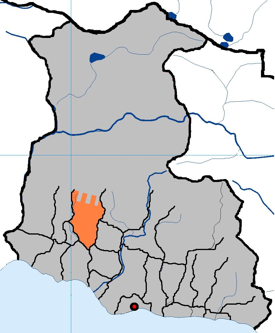 Map showing the location of the village Othara in Abkhazia.